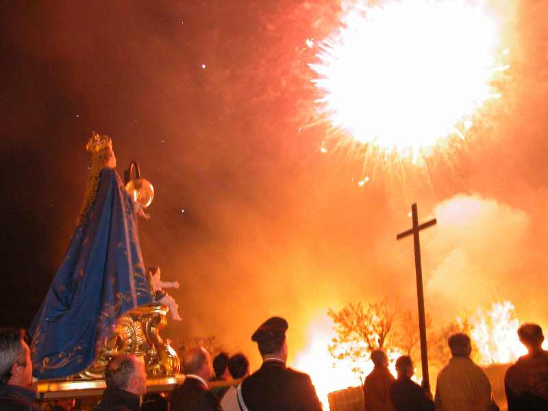 pietranico - Madonna della Croce